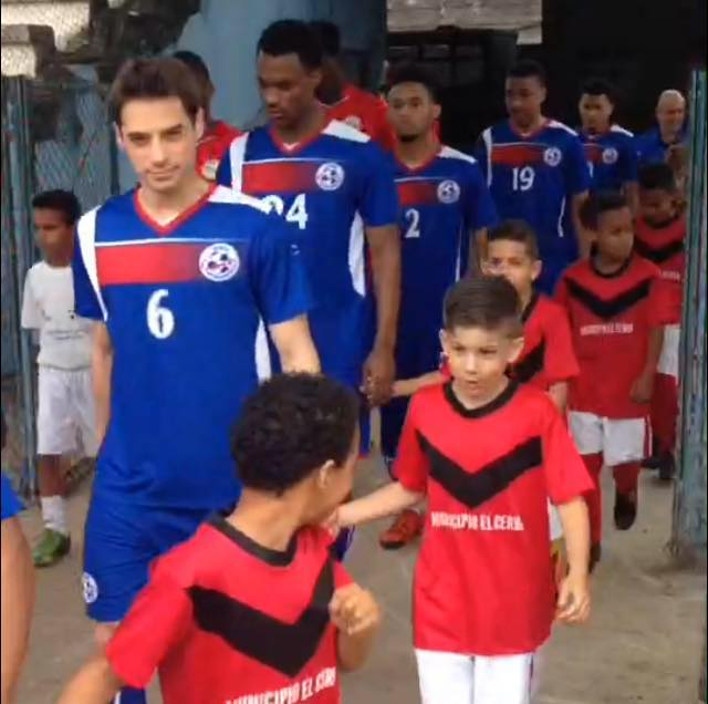 Elkinson playing with Bermuda.